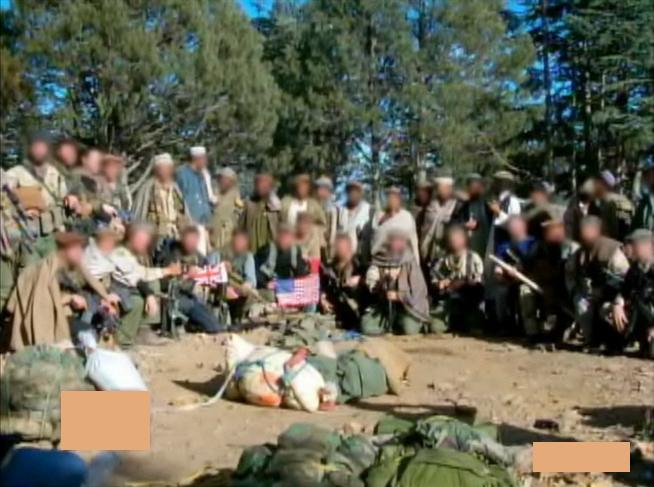 U.S. Delta Force and British Special Boat Service at Tora Bora.